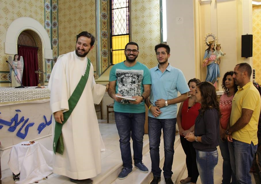 Syrian Christians in a Church in Damascus - 2017